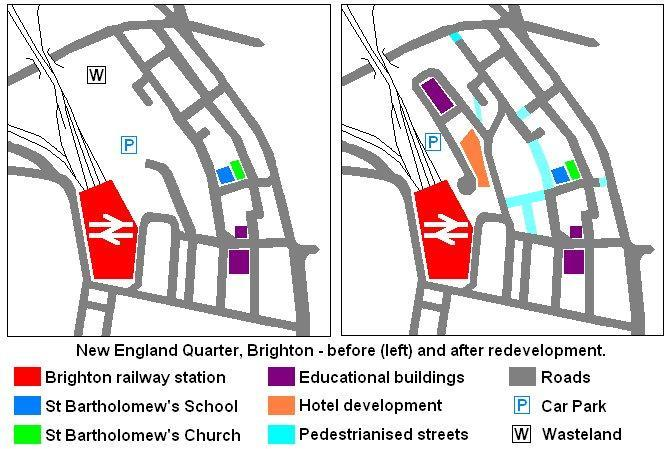 Drawing of the New England Quarter in Brighton, before and after redevelopment. Drawn by me - Feb 2007.